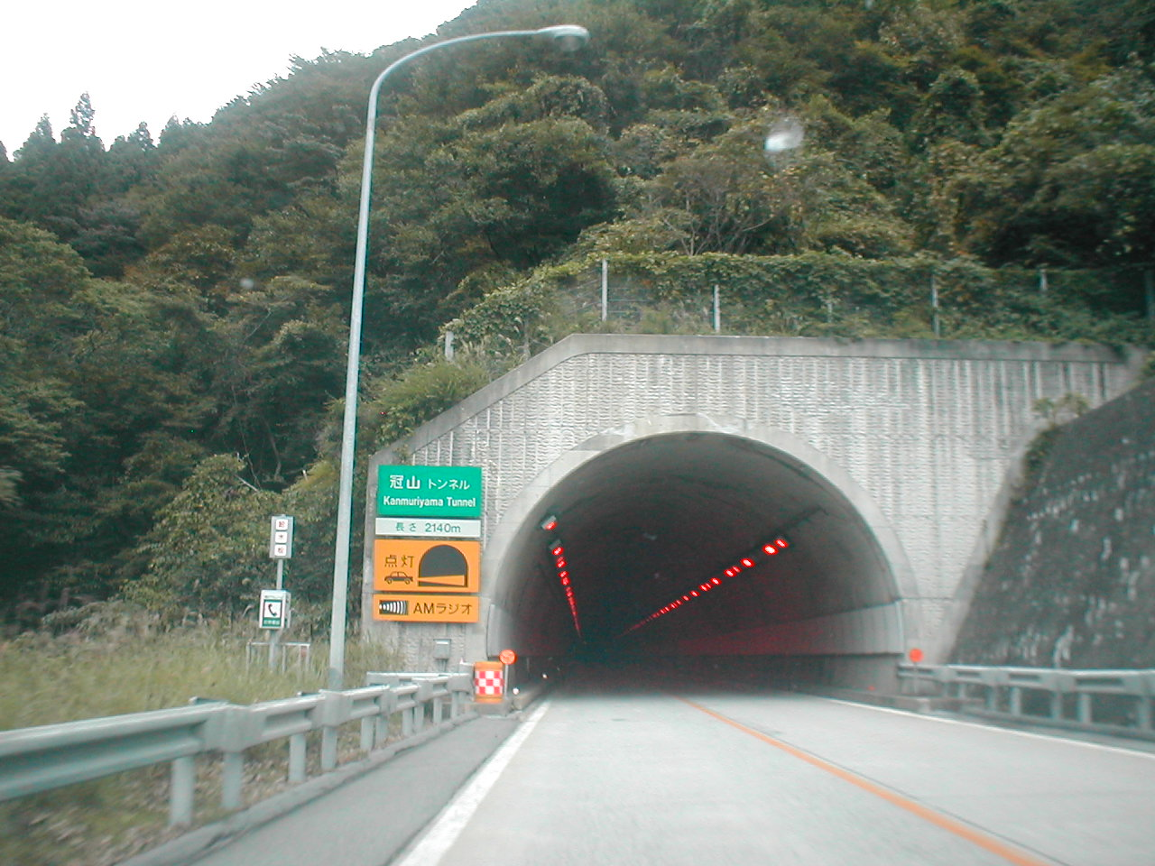 Japanese Chugoku Expressway, Kannmuriyama tunnel